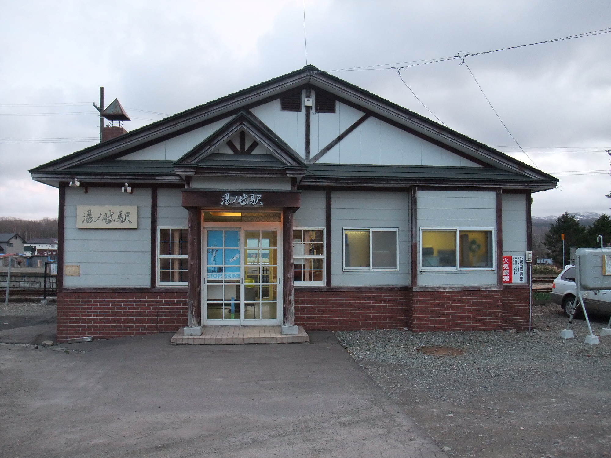 Yunotai Station on the Esashi Line